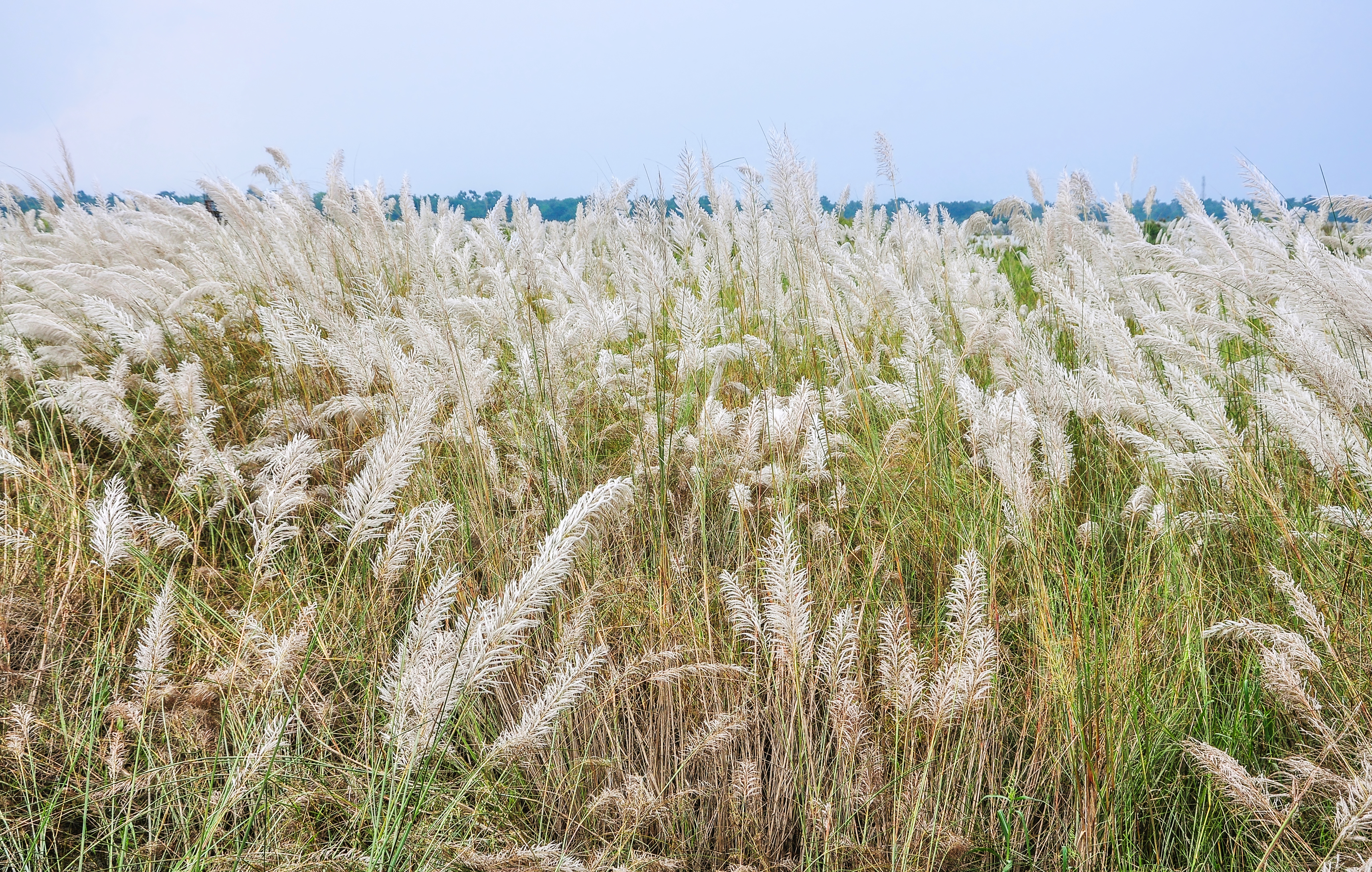 Saccharum spontaneum inflorescences.